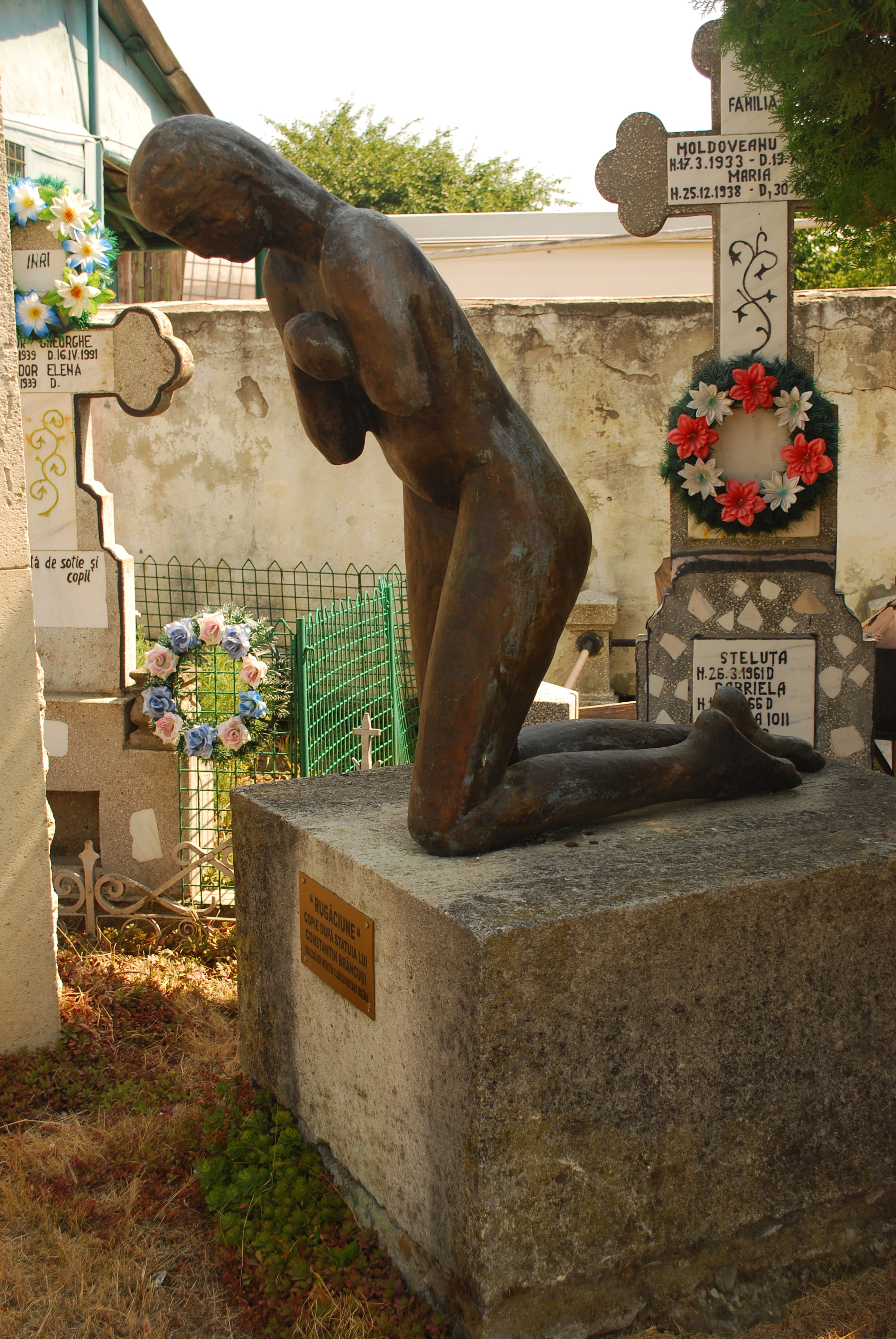 "Prayer" statue in Dumbrava cemetery, Buzău, RomaniaRomână: Statuia „Rugăciune” în cimitirul Dumbrava, Buzău, România 01